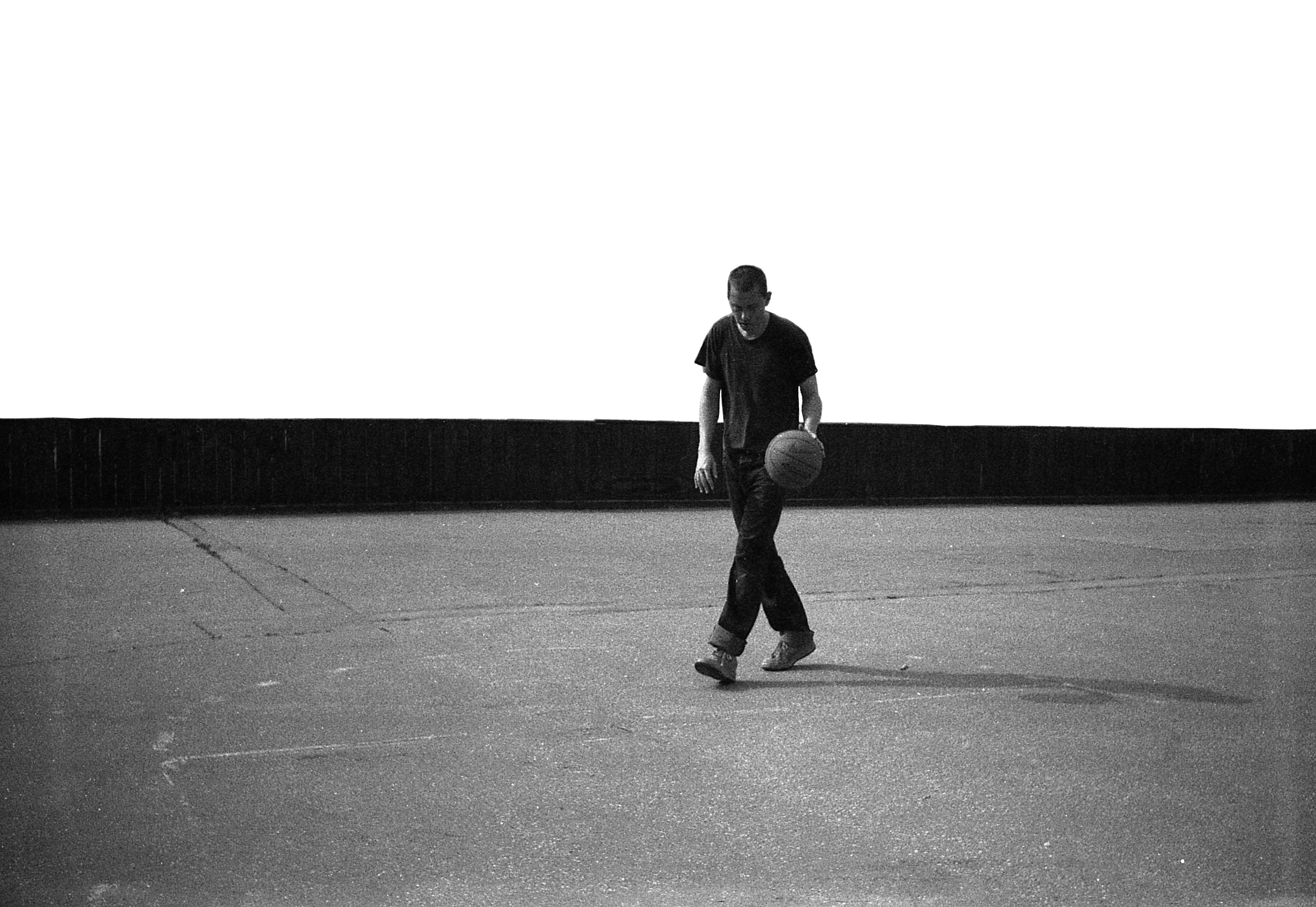 Czech poet Miroslav Fišmeister playing basketball.